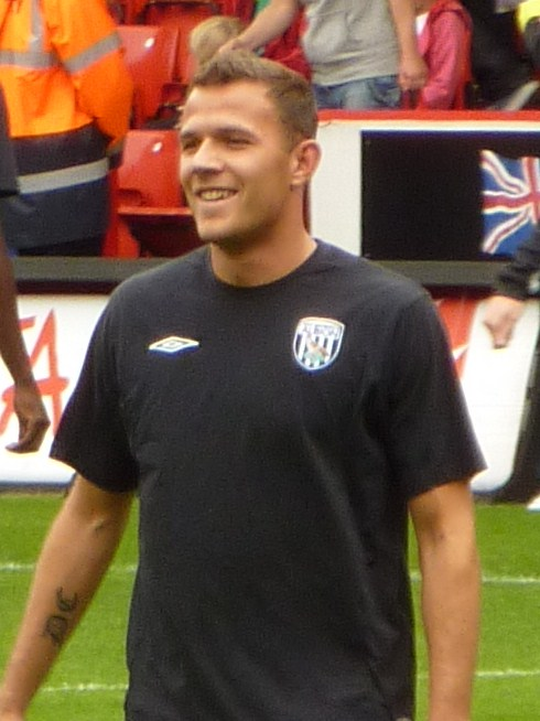 Czech football (soccer) striker Roman Bednář of West Bromwich Albion, warming up prior to a match against Sheffield United at Bramall Lane on 2009-08-29